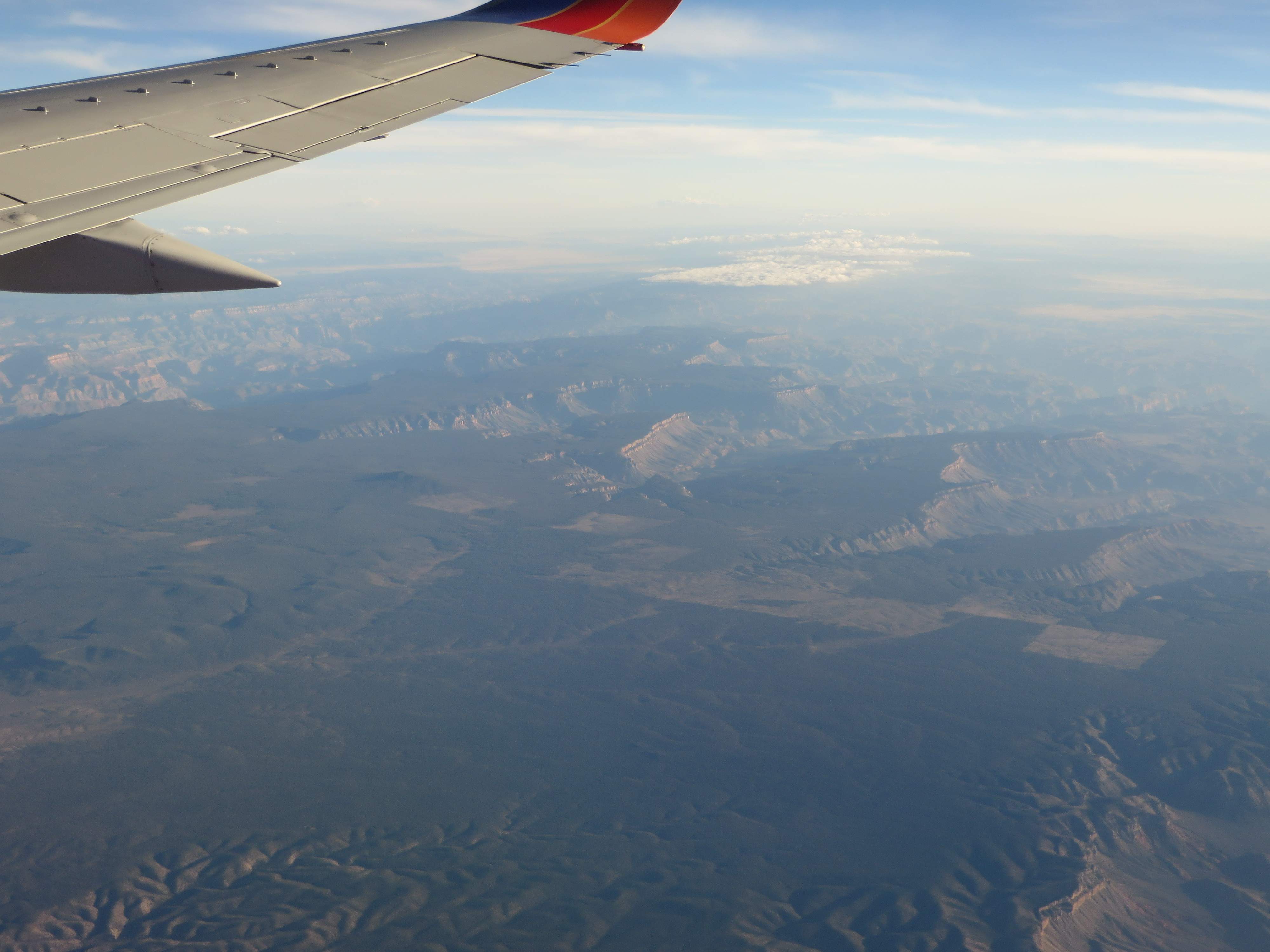 Grand Canyon-Parashant National Monument (sometimes referred to as Parashant National Monument) is located on the northern edge of the Grand Canyon in northwest Arizona. The monument was established by Presidential Proclamation 7265 on January 11, 2000. A remote area of open, undeveloped spaces, the Grand Canyon-Parashant National Monument is an impressive and diverse landscape that includes an array of scientific and historic resources. The national monument is a very remote and undeveloped place jointly managed by the National Park Service (NPS) and the Bureau of Land Management (BLM). There are no paved roads into the monument and no visitor services. The 1,048,325-acre (424,242 ha) monument is larger than the state of Rhode Island. The BLM portion of the monument consists of 808,747 acres (327,288 ha). The NPS portion contains 208,453 acres (84,358 ha) of lands that were previously part of Lake Mead National Recreation Area. There are also about 23,205 acres (9,391 ha) of Arizona State Trust lands and 7,920 acres (3,210 ha) of private lands within the monument boundaries. Grand Canyon-Parashant is not considered a separate unit of the NPS because its NPS area is counted in Lake Mead National Recreation Area. Elevation ranges from 1,230 feet (370 m) above sea level near Grand Wash Bay at Lake Mead, to 8,029 feet (2,447 m) at Mount Trumbull. The Interagency Information Center is located in the BLM Office in St. George, Utah. The name Parashant is derived from Paiute word Pawteh 'ee oasoasant, meaning "tanned elk hide," or "softening of the elk hide."